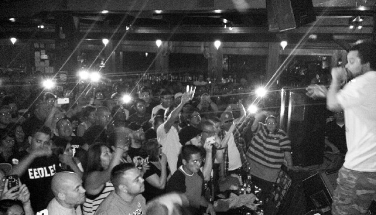 Roqy Tyraid performs at a sold out concert in Phoenix, Arizona 2015